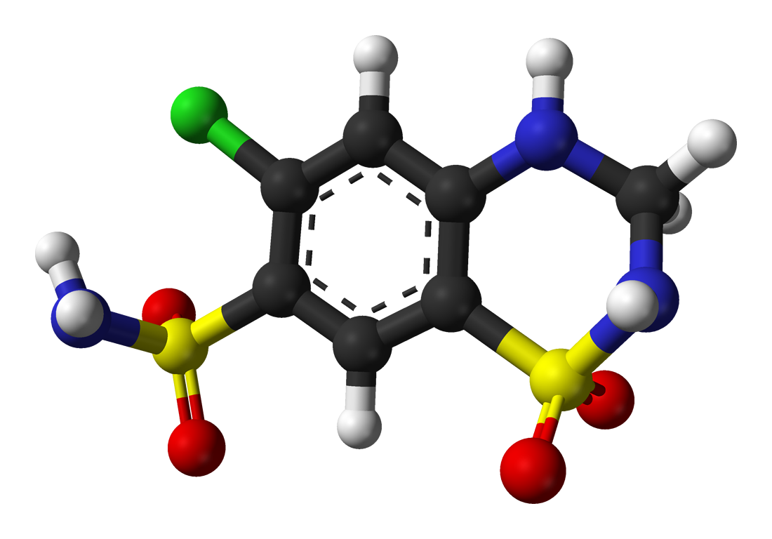 Ball-and-stick model of the hydrochlorothiazide molecule. X-ray diffraction data from C. K. Leech, F. P. A. Fabbiani, K. Shankland, W. I. F. David and R. M. Ibberson (February 2008). "Accurate molecular structures of chlorothiazide and hydrochlorothiazide by joint refinement against powder neutron and X-ray diffraction data". Acta. Cryst. 'B64' (1): 101-107.